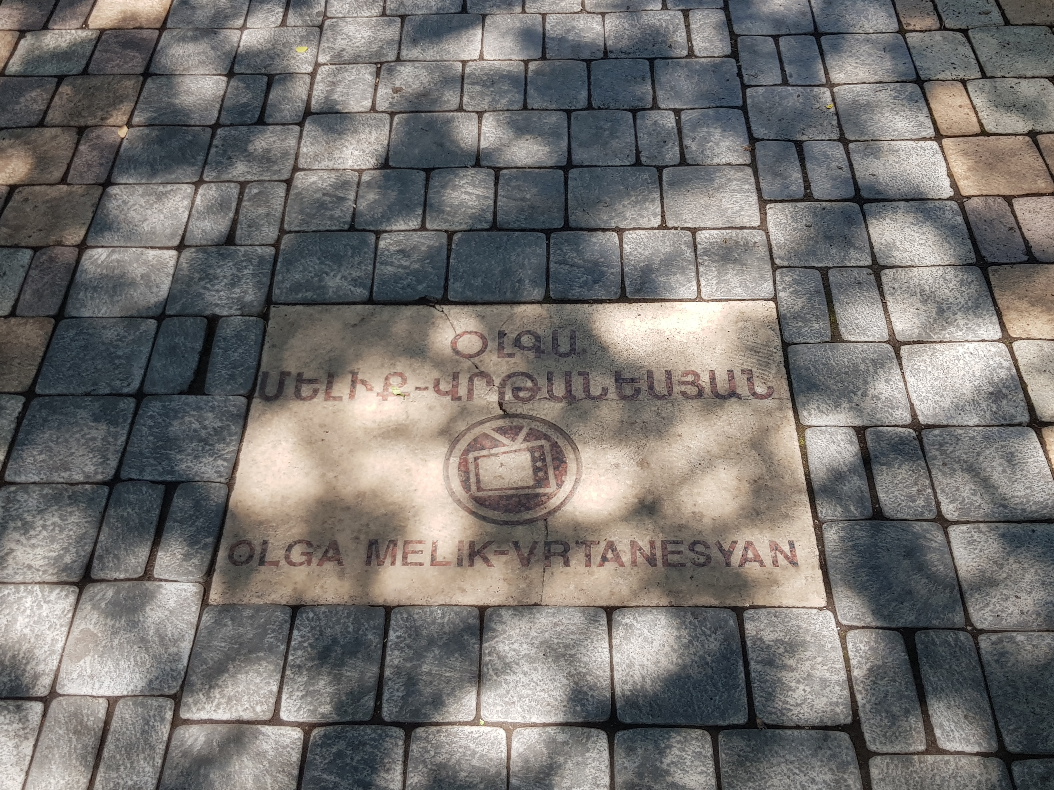 Alley of Devotees, Yerevan